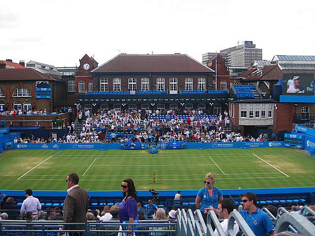 Centre Court at Queen's Club just ahead of the 2010 Men's final.